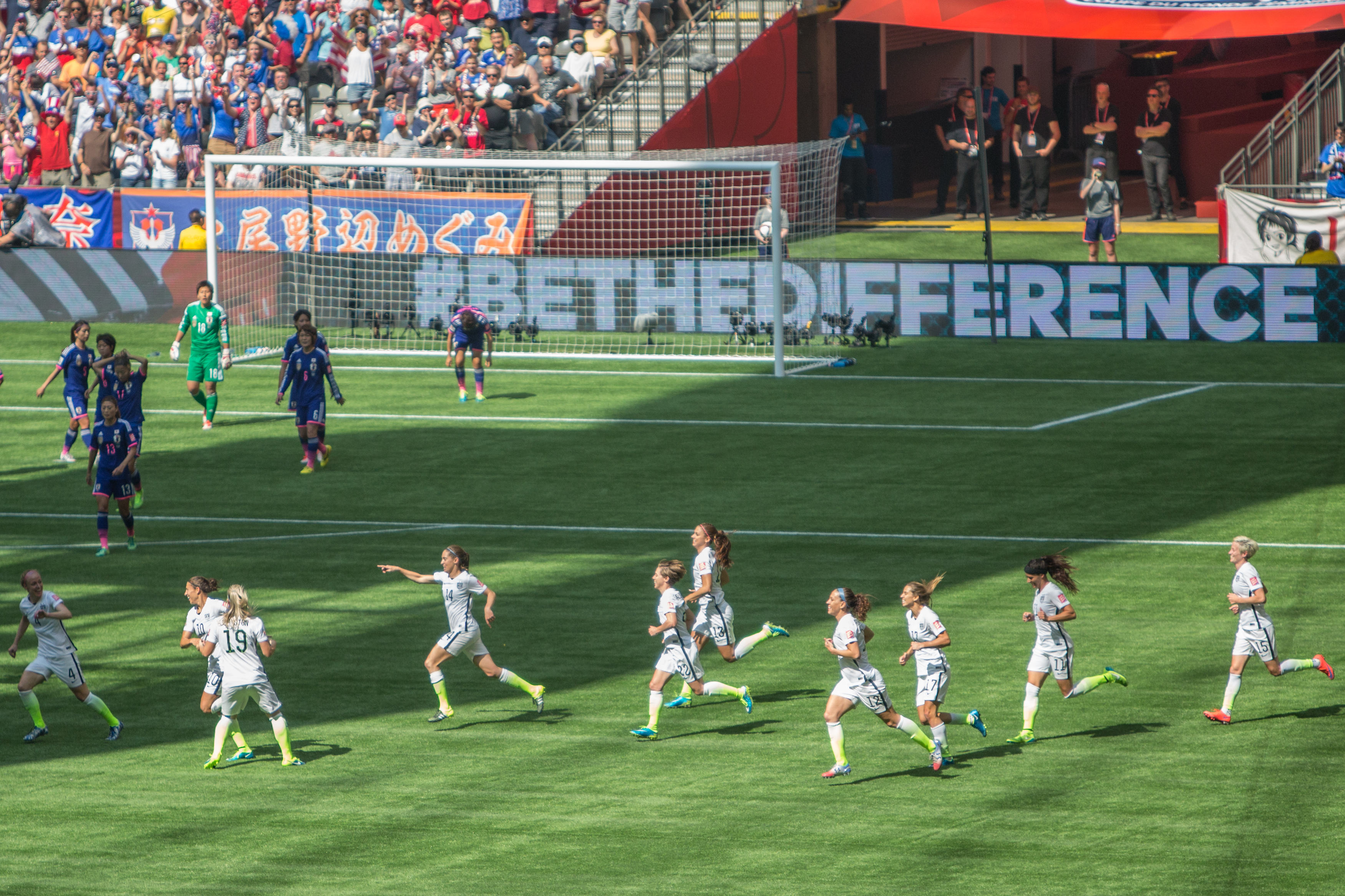 Off to a good start